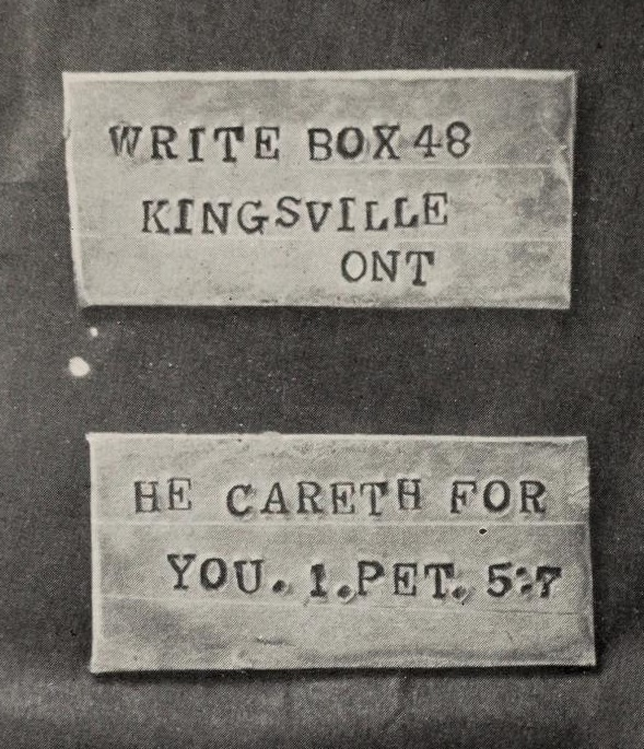 Jack Miner's aluminum bird tags, showing both sides as he stamped them with Biblical verses.